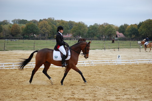 Orphée du Lot, anglo-arabian mare, property of Alexandra Arpino, during a dressage event, Ile de France, France